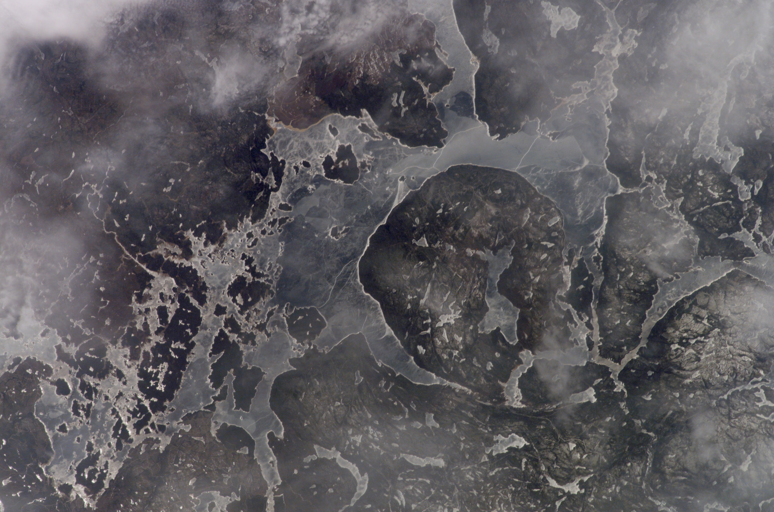 Pipmuacan Reservoir in Quebec, Canada. NASA Mission: ISS015; Roll: E; Frame: 6926